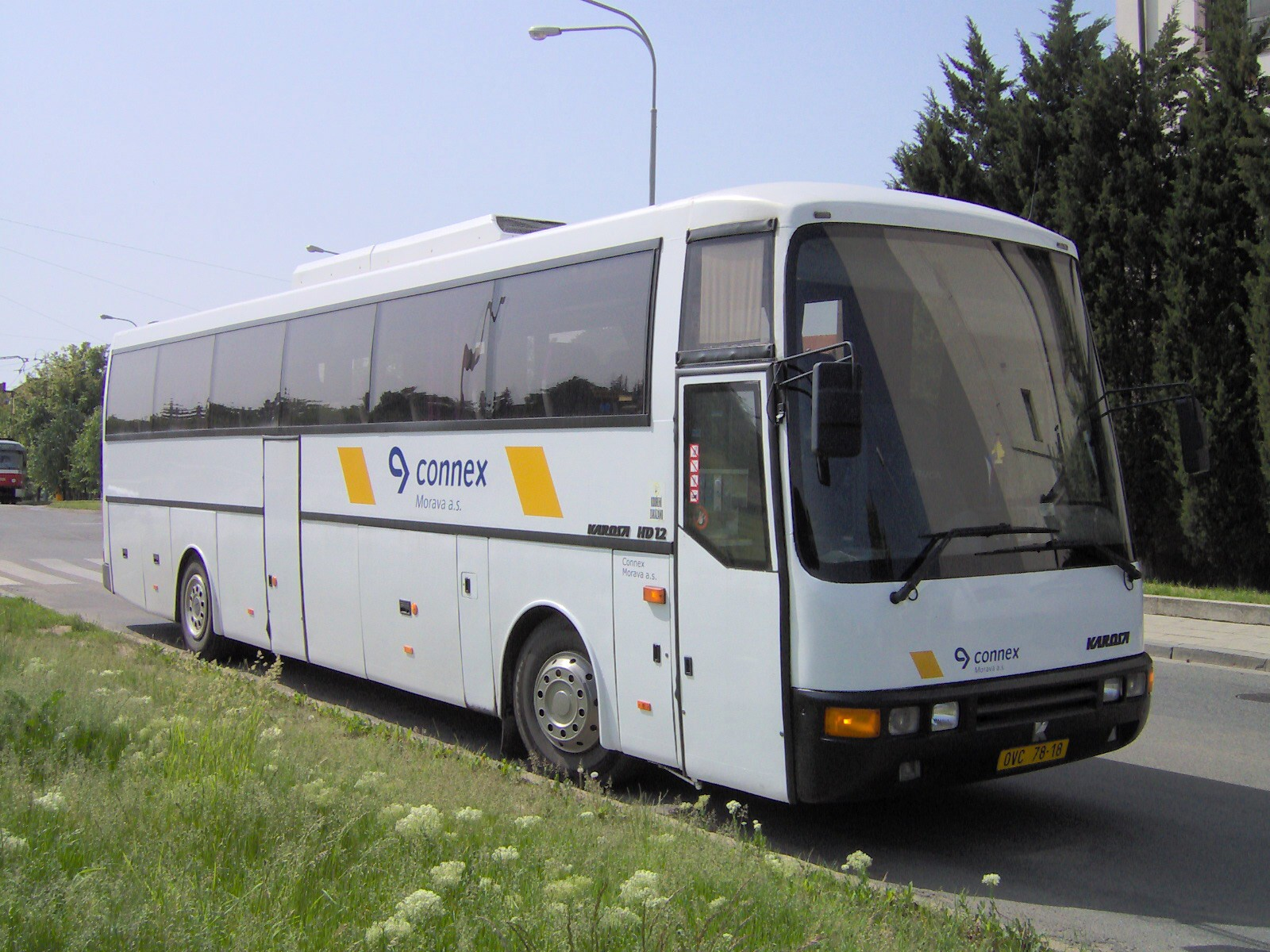 Karosa LC 757 bus in Brno, Czech Republic